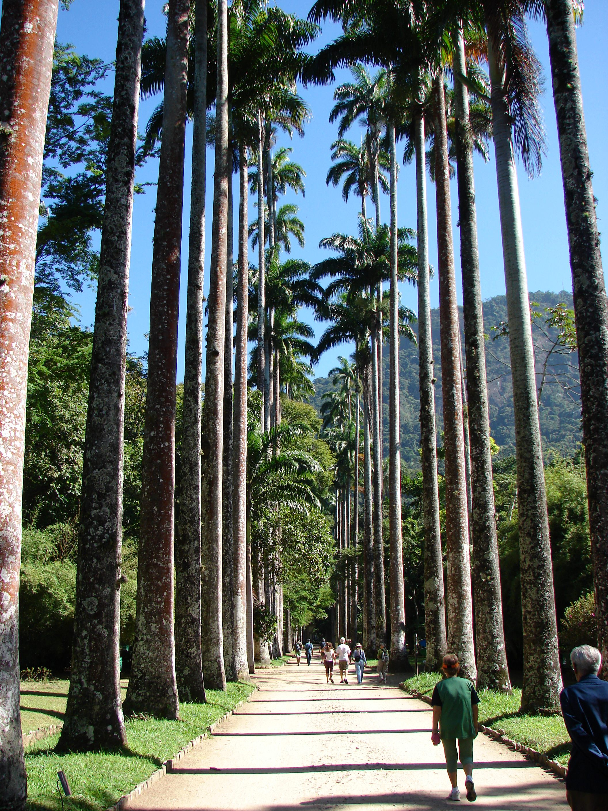 A palm tree avenue (landscape allée) of Roystonea oleracea palms. Along the main garden walkway at Rio de Janeiro Botanical Garden.